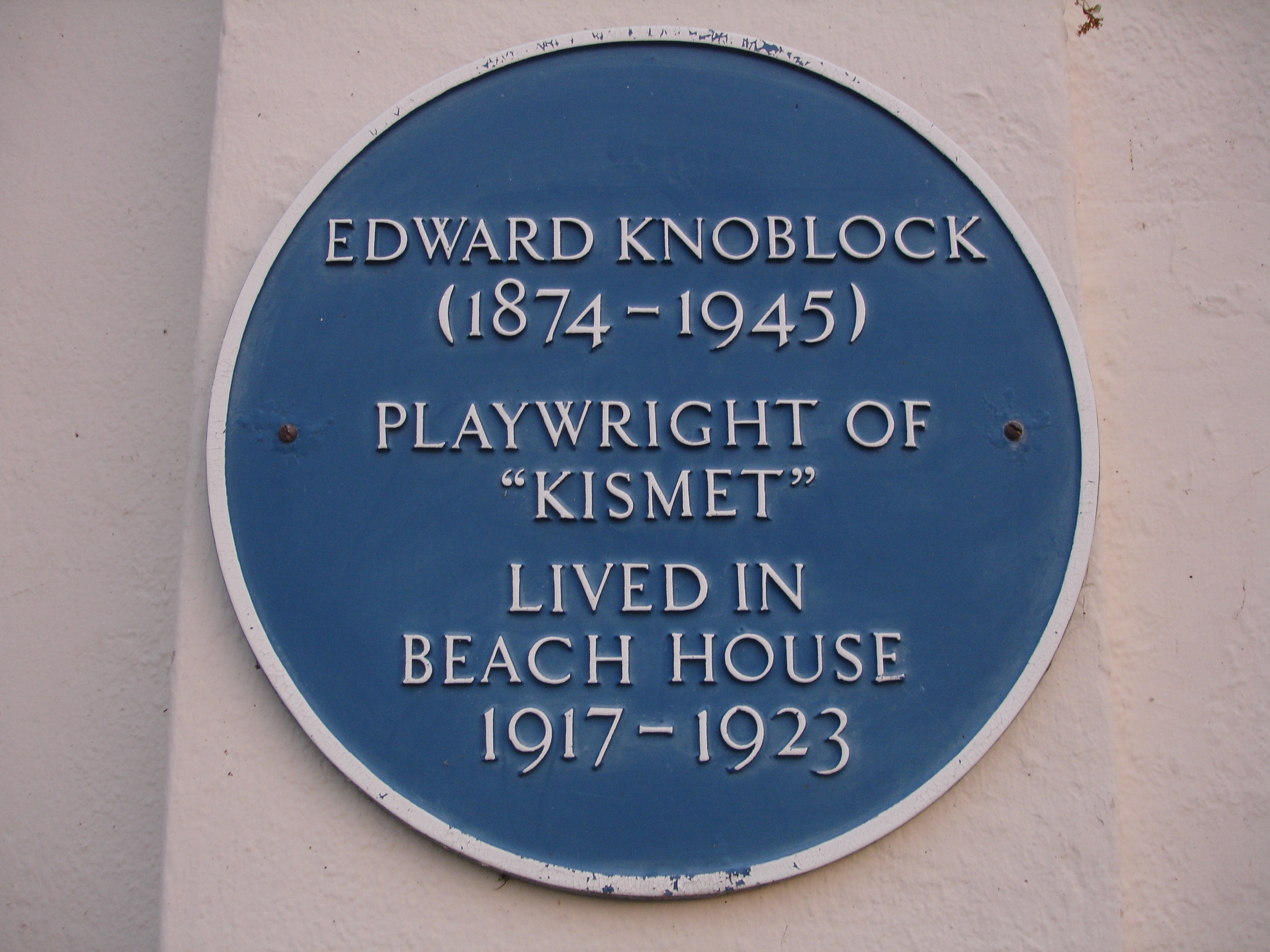 Edward Knoblock